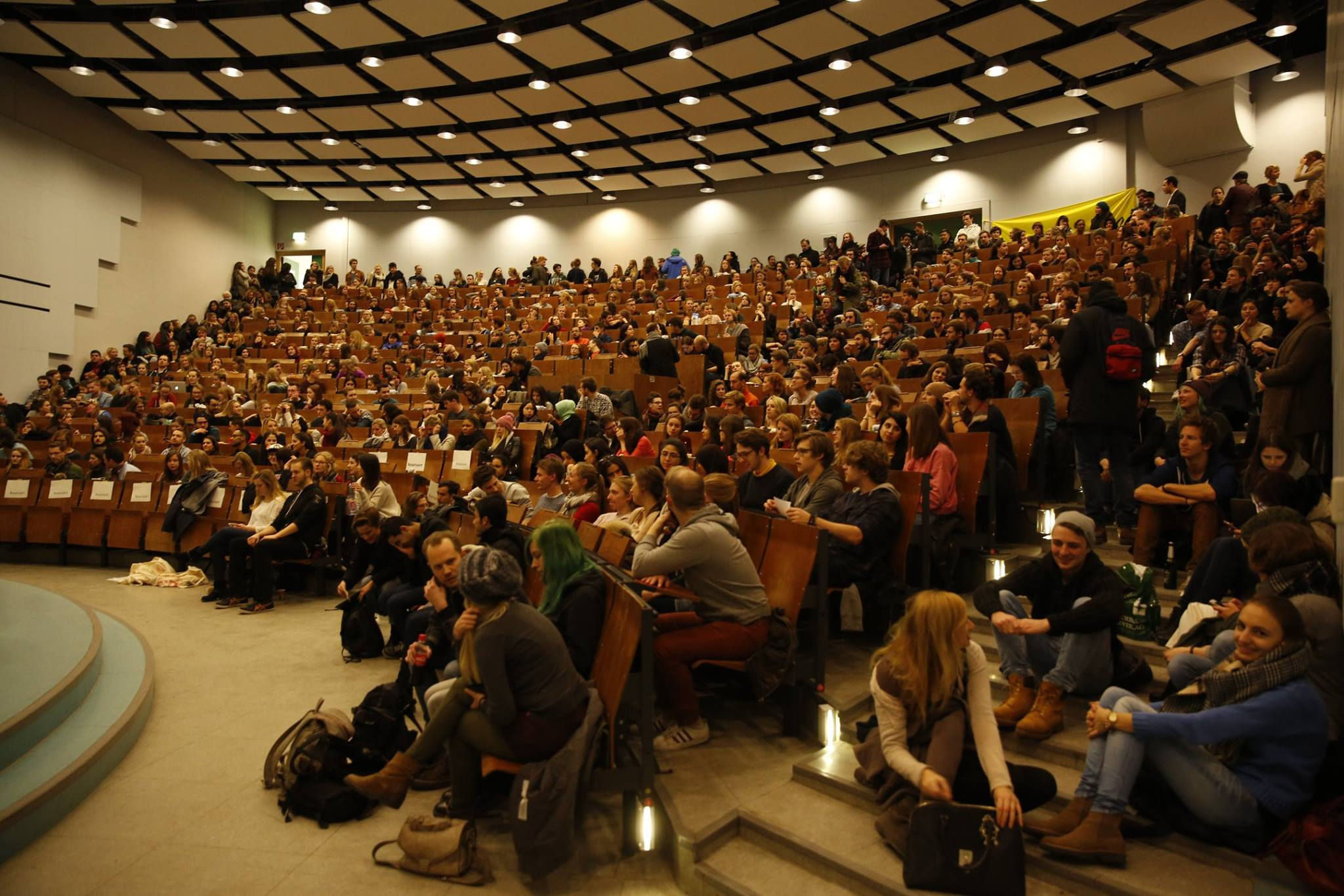 film premiere of asyland in düsseldorf